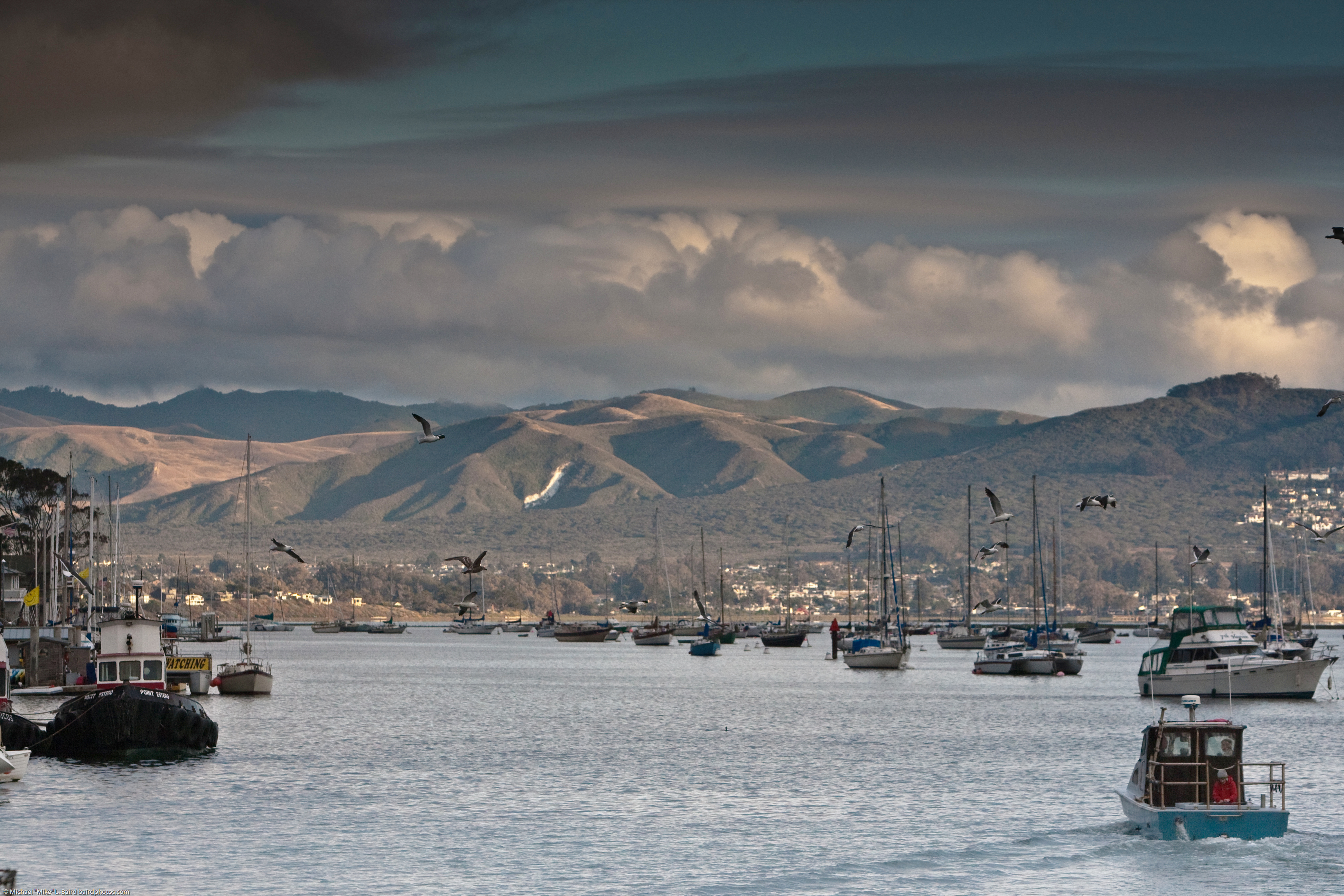 The Irish Hills, in San Luis Obispo Count in central California, at the southern edge of the Santa Lucia Range. The hills form the backdrop of the community of Los Osos, California, as seen here from the city of Morro Bay, and its fishing and pleasure boat harbor. Elna Peak, CA, USA may be visible here on the left - not sure. Elna Peak climbs to 1,329 feet (405.08 meters) above sea level. Canon 1D Mark III, Canon 70-200mm f/2.8 Lens, on tripod, some mild Lightroom treatment with non-linear gradient filters on top and bottom halves, and curves adjustment to RAW to add contrast.